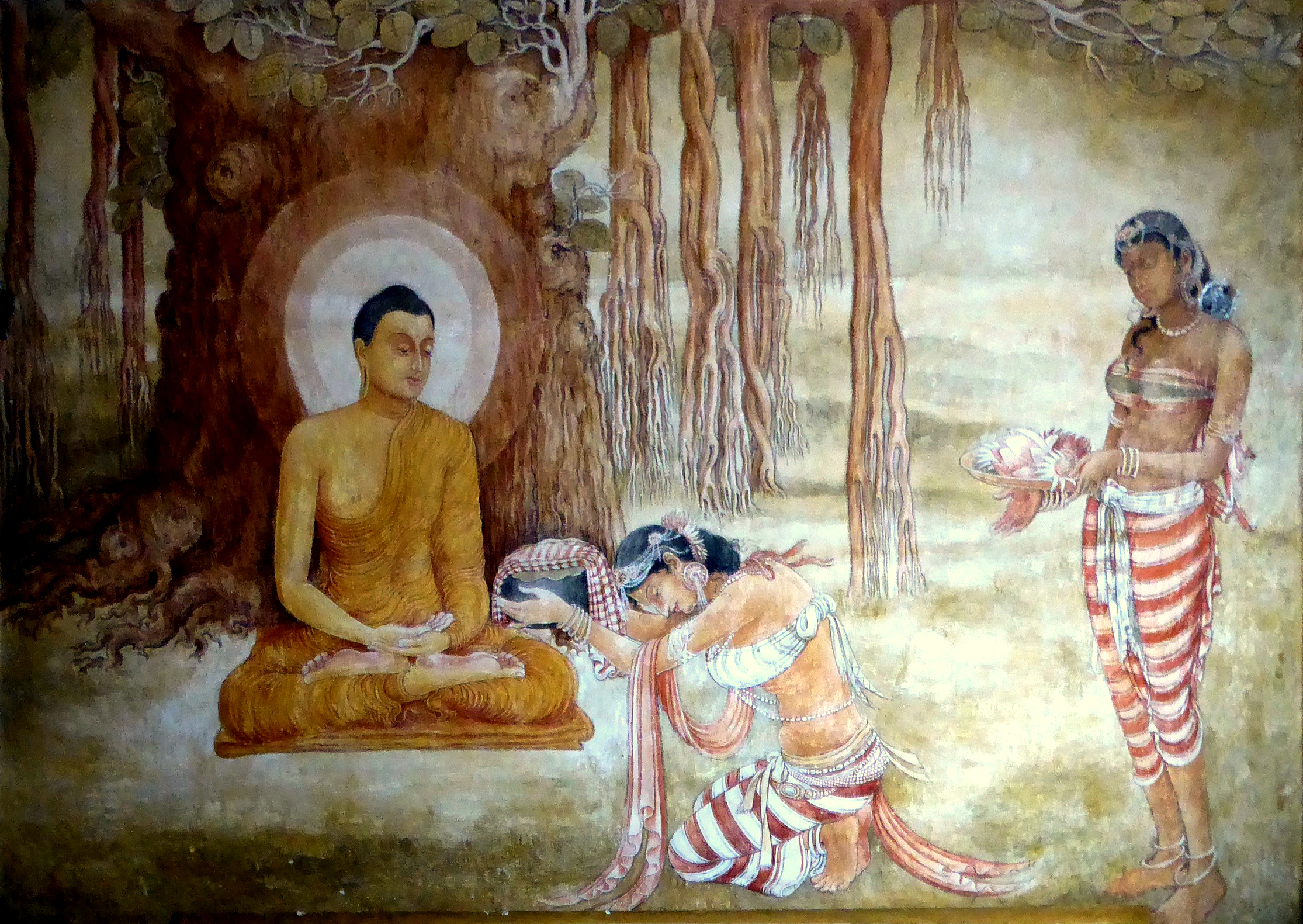 Sujata and the Buddha. Sujata offers Milk Rice, Kelaniya Raja Maha Vihara